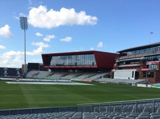 A picture of Old Trafford Cricket Ground